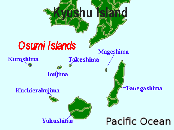 Osumi islands. Adapted from Public Domain map of Satsunan Islands